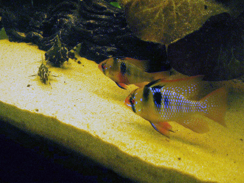 Pair of captive-bred Mikrogeophagus ramirezi chasing a couple of dwarf Synodontis from their nesting site. The male is in the foreground and can be recognised by his brighter colours and longer fin rays (especially in the dorsal). Category:Cichlid images